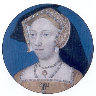 A portrait miniature of Jane Seymour (1509–1536), third consort of Henry VIII.